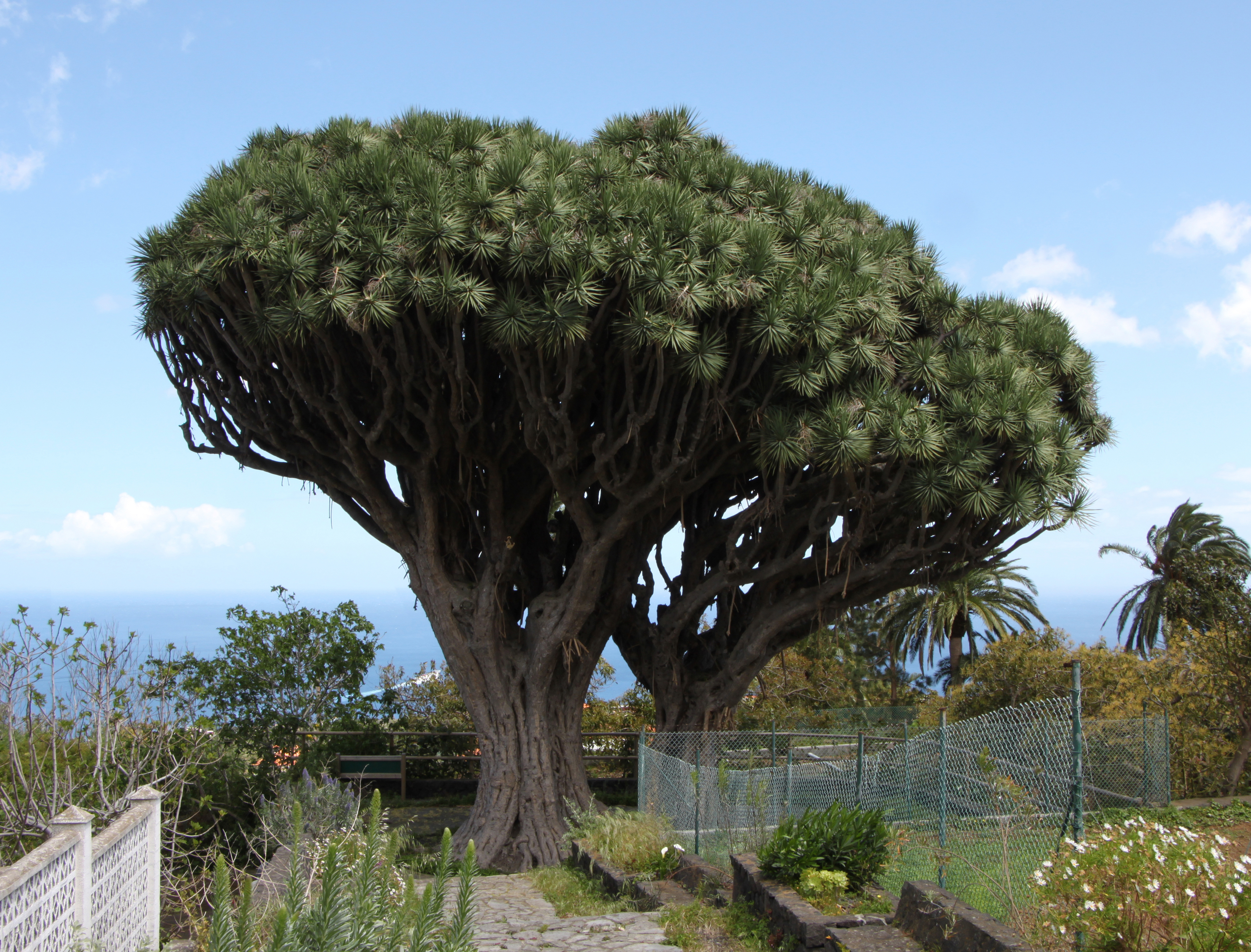 "Los Dragos Gemelos" (The twin dragon trees) of Breña Alta, La Palma, Canary Islands, Spain. The „Dragos Gemelos“ are the oldest dragon trees of la Palma and reach a height of about 15 meters. Their treetops are entangled. It is told, that long ago two brothers loved the same girl. As she could not decide, the two brothers fighted with each other. The fight was hard and both died. The girl was very sad and decided, never to marry. She planted two dragon trees at the place of the fight, so that the memory of the two brothers will last for ever.